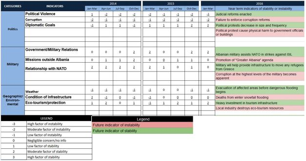 An example of the Indicator Analysis structured analytic technique used in intelligence analysis. Covers three subject categories for Albania.